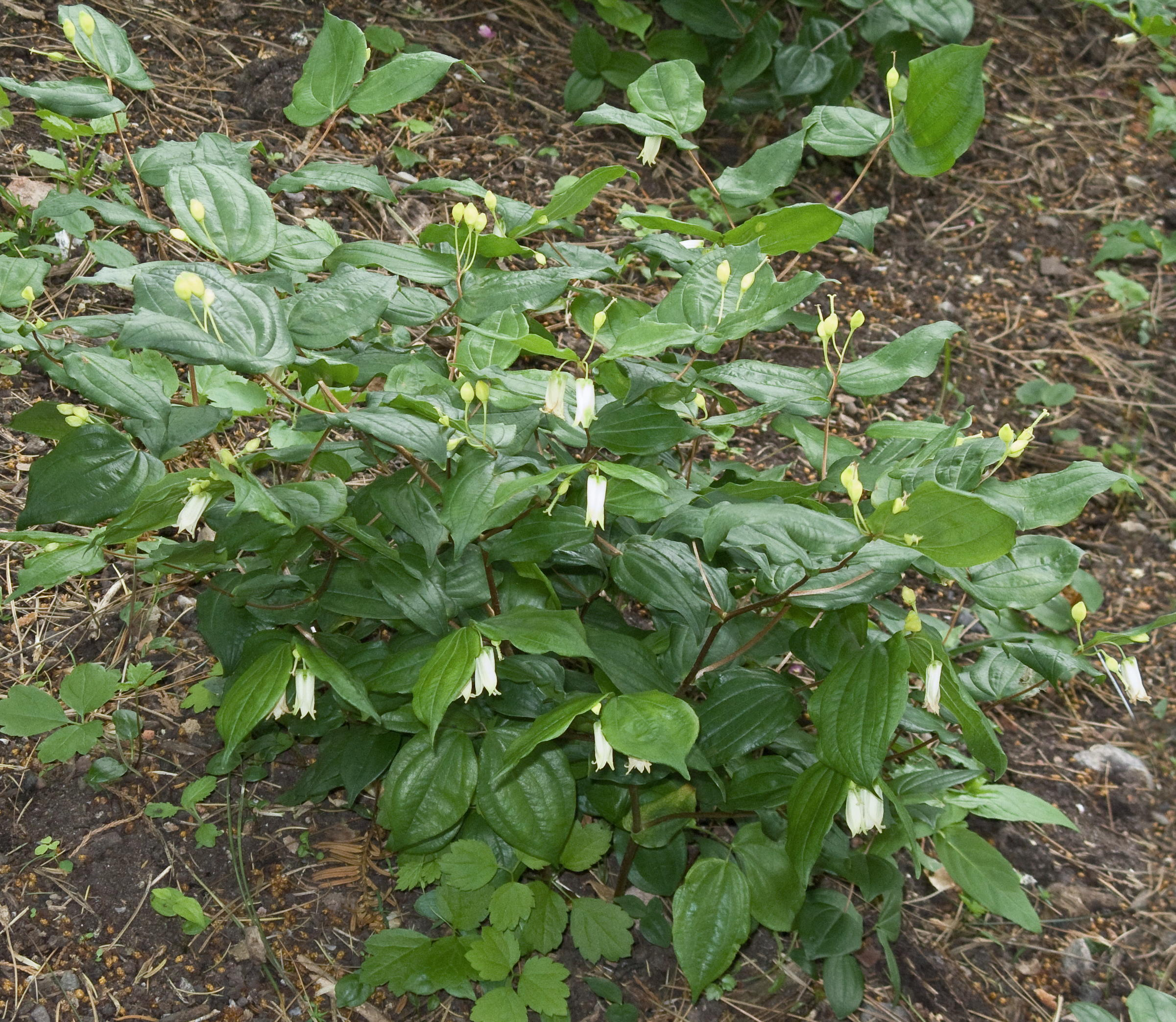 Plant of Prosartes smithii in cultivation at the Birmingham Botanical Gardens, Birmingham, UK